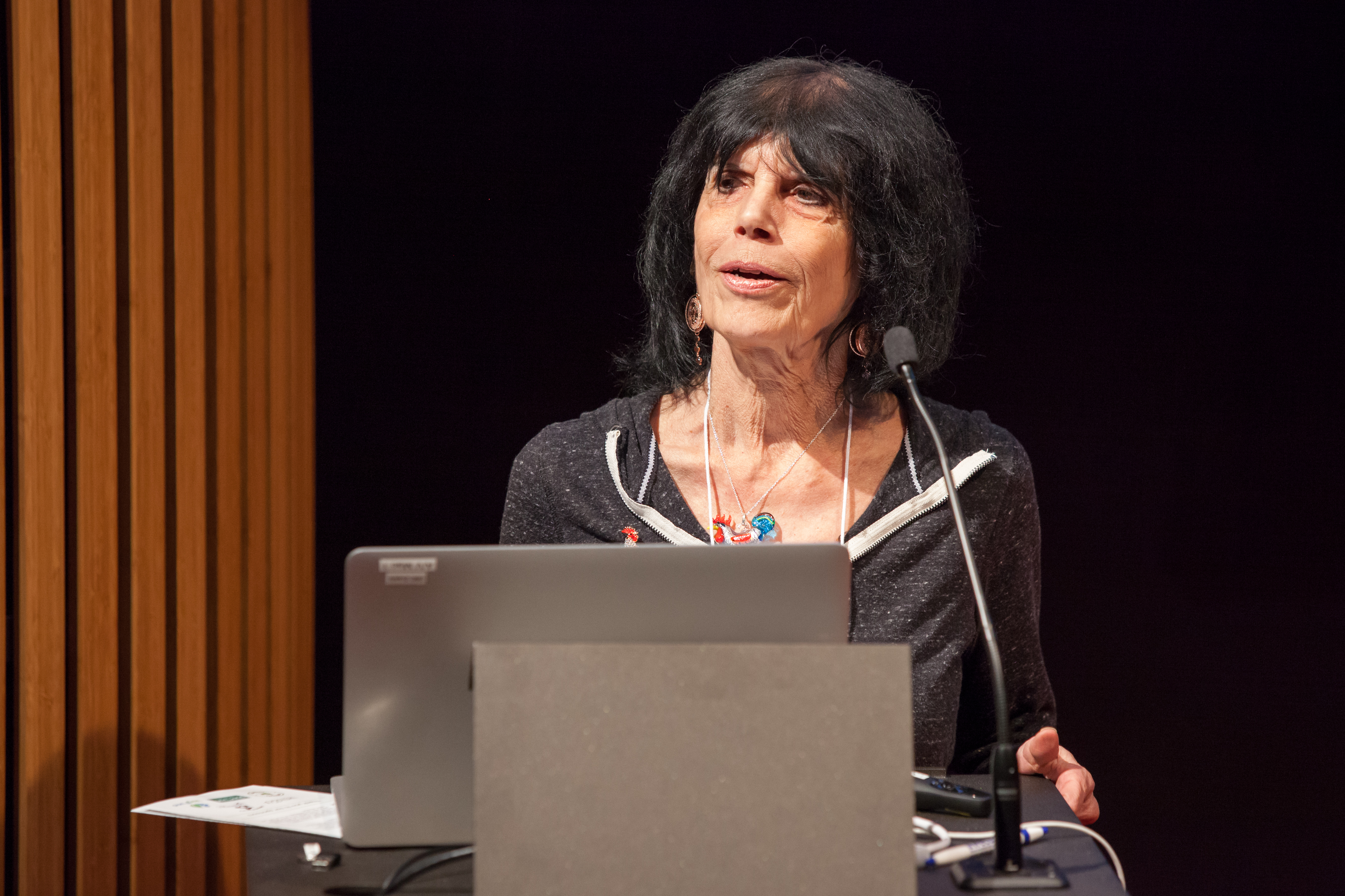 Karen Davis, president and founder of United Poultry Concerns, speaks at the 2018 Conscious Eating Conference in Berkeley, California.